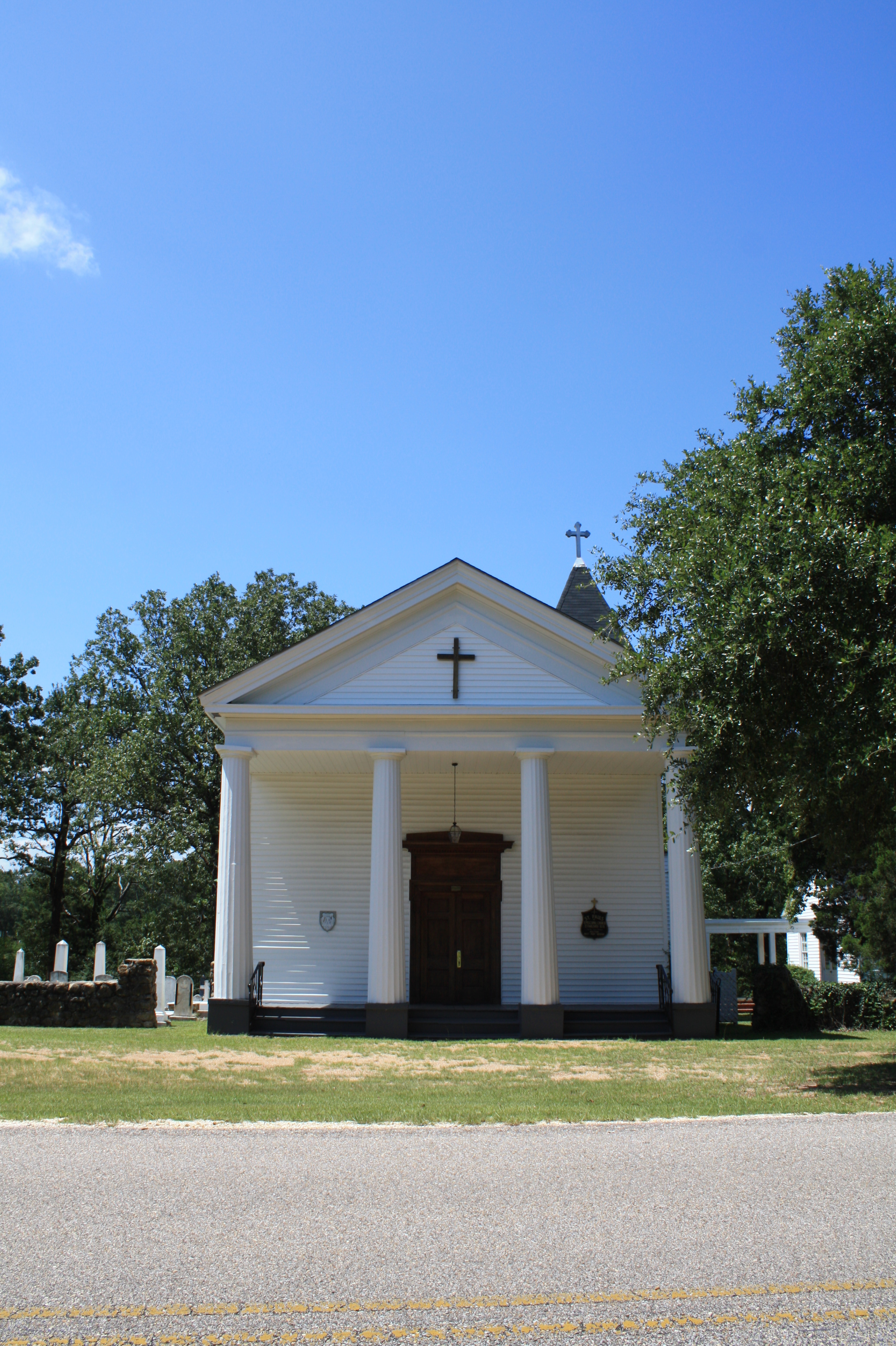 St. Paul's Episcopal Church in Carlowville, Dallas County, Alabama. Established in 1838.